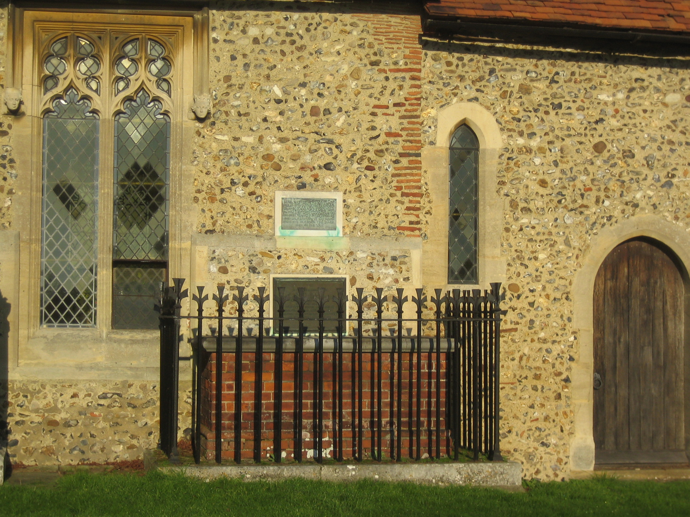 Photographed by me 20 December 2006